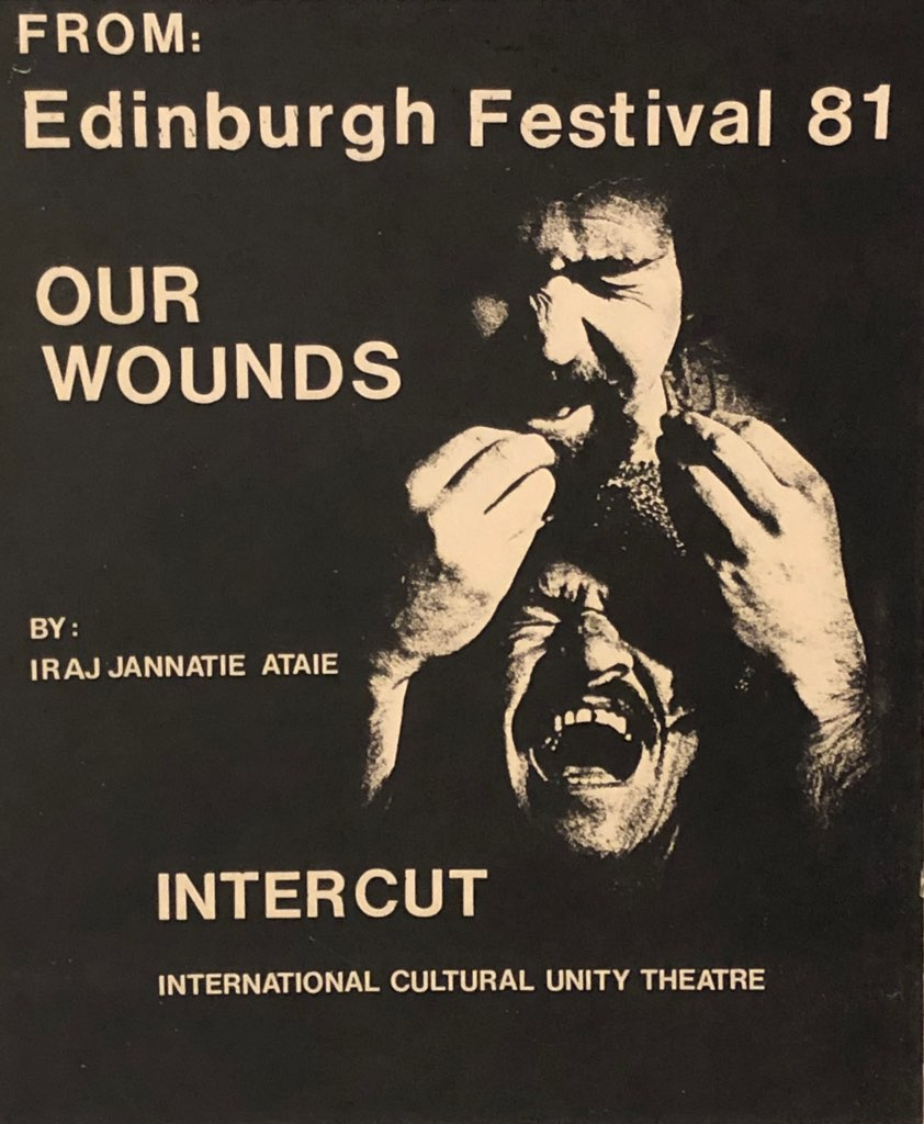 Poster for Our Wounds